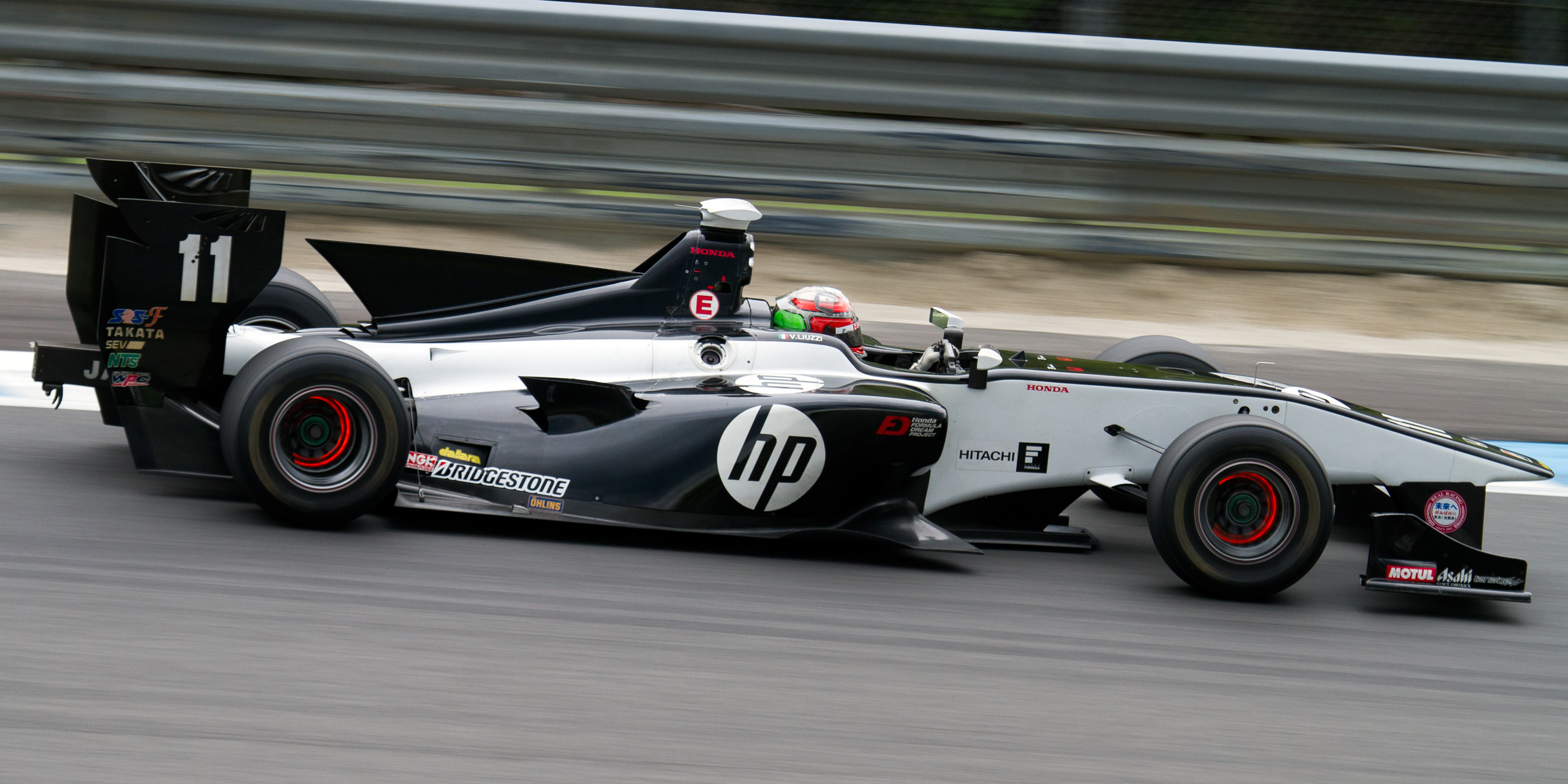 Super Formula 2014 Rd.4 Motegi: Vitantonio Liuzzi (Real Racing)